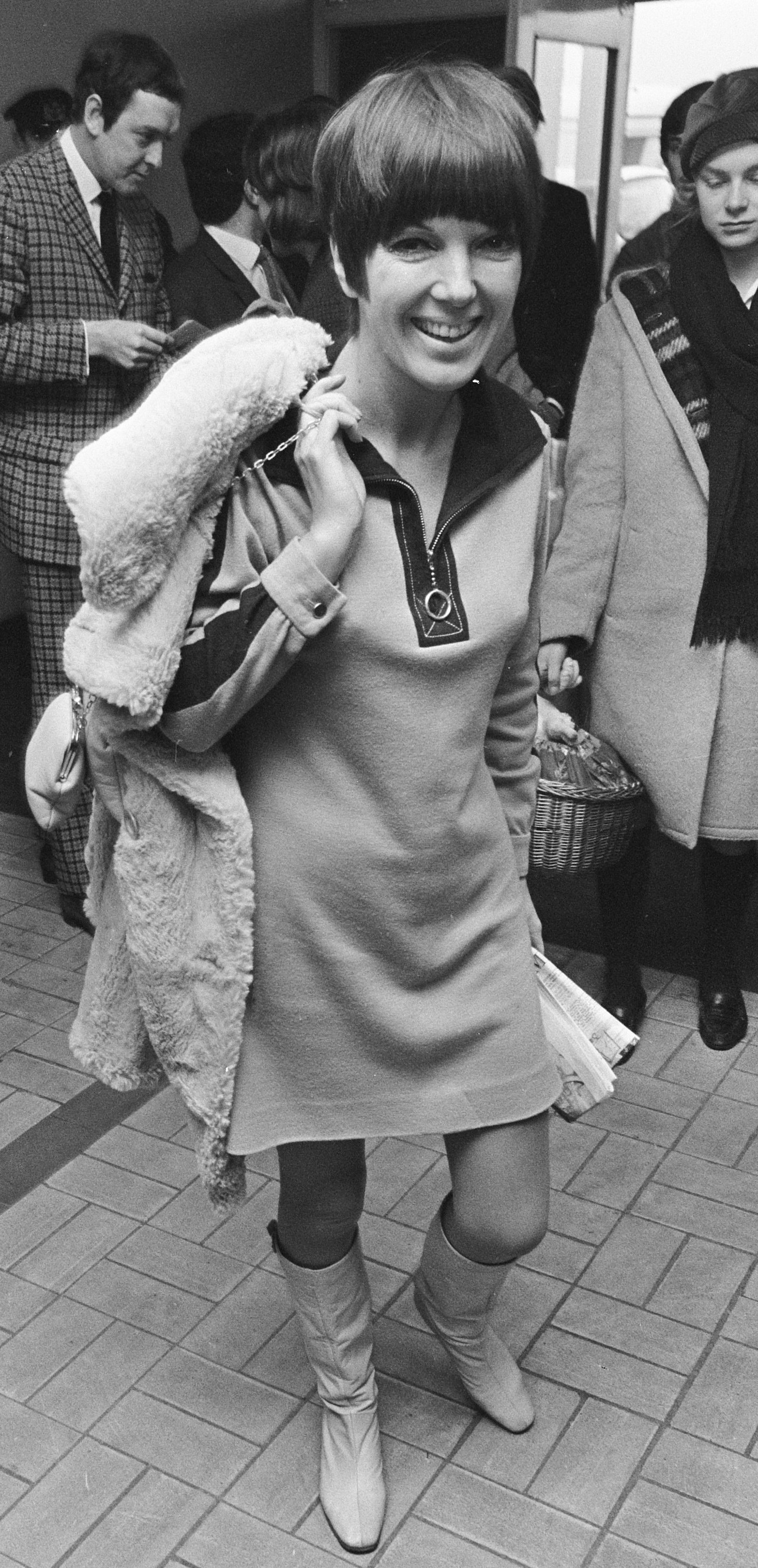 Mary Quant wearing a mini dress of her own design, with a sheepskin coat and bag thrown over her shoulder, and wearing go-go boots.